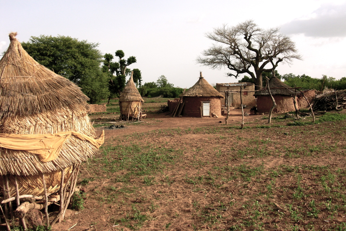 Tibin village, Burkina Faso (near Ziniaré, Oubritenga). Source: Grandjean, Martin (2013) Burkina Faso : fascinante organisation de l'espace